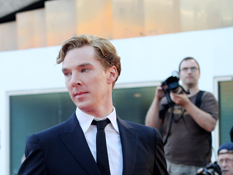 Benedict Cumberbatch at the London premiere of Tinker Tailor Soldier Spy. BFI South Bank, Tuesday 13th September 2011